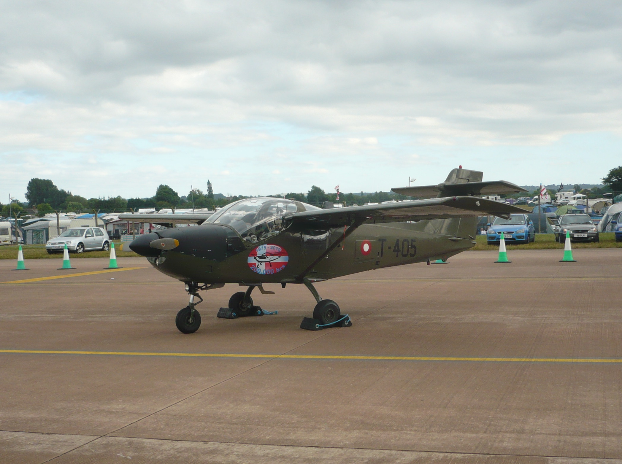 Saab T-17 Supporter, T-405, at RIAT 2010.